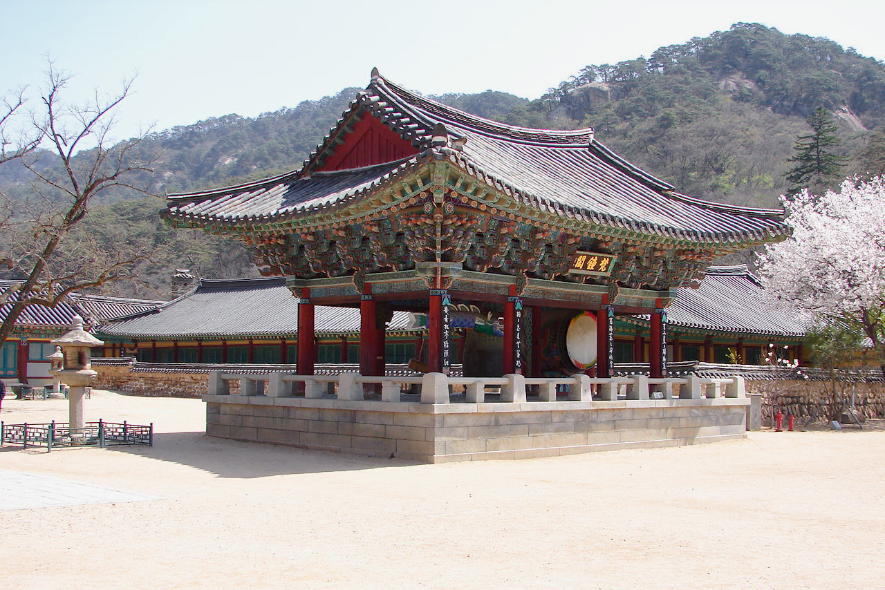 Bell Palvilion at Beopjusa (법주사), initially constructed in 553, is a head temple of the Jogye Order of Korean Buddhism situated on the slopes of Songnisan in Naesongni-myeon, Boeun County, in the province of Chungcheongbuk-do, South Korea.